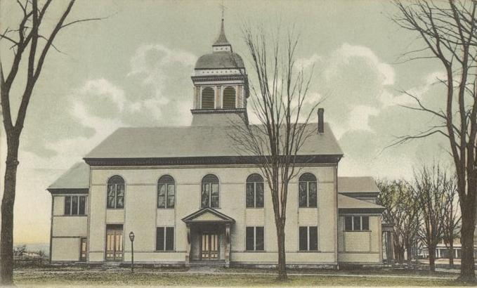 Town House, Walpole, New Hampshire. This shows the building before it was remodeled in the Neoclassical style.